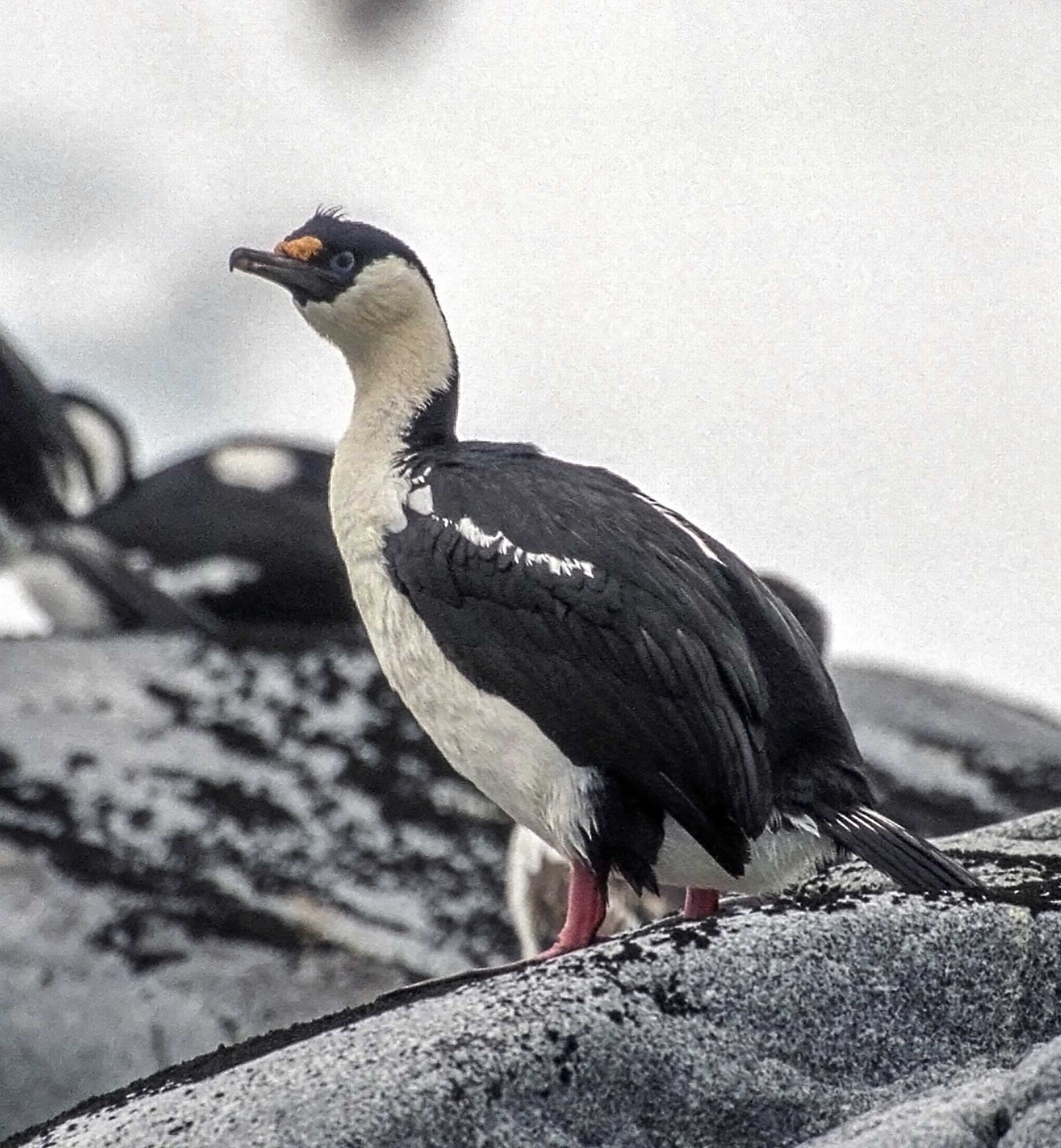 Phalacrocorax atriceps